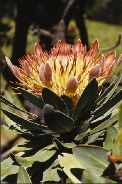 Protea eximia phtographed in a garden in Stellenbosch, South Africa, by Grant Hearn ca. 1980. Uploaded for the article 'Protea eximia'.